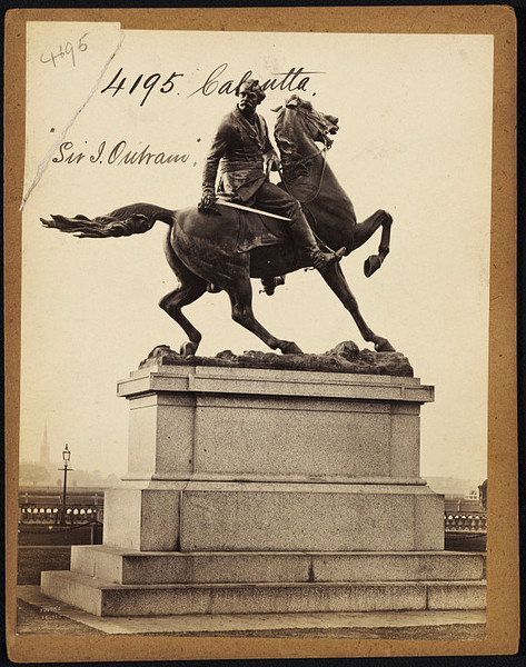 Statue of Sir James Outram in Calcutta, made by Irish sculptor John Henry Foley 1873, originally placed at the Maidan, Kolkata; now placed in garden of Victoria Memorial, Kolkata, India